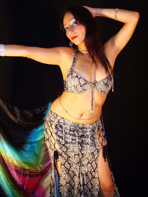 A belly dancer in 2009